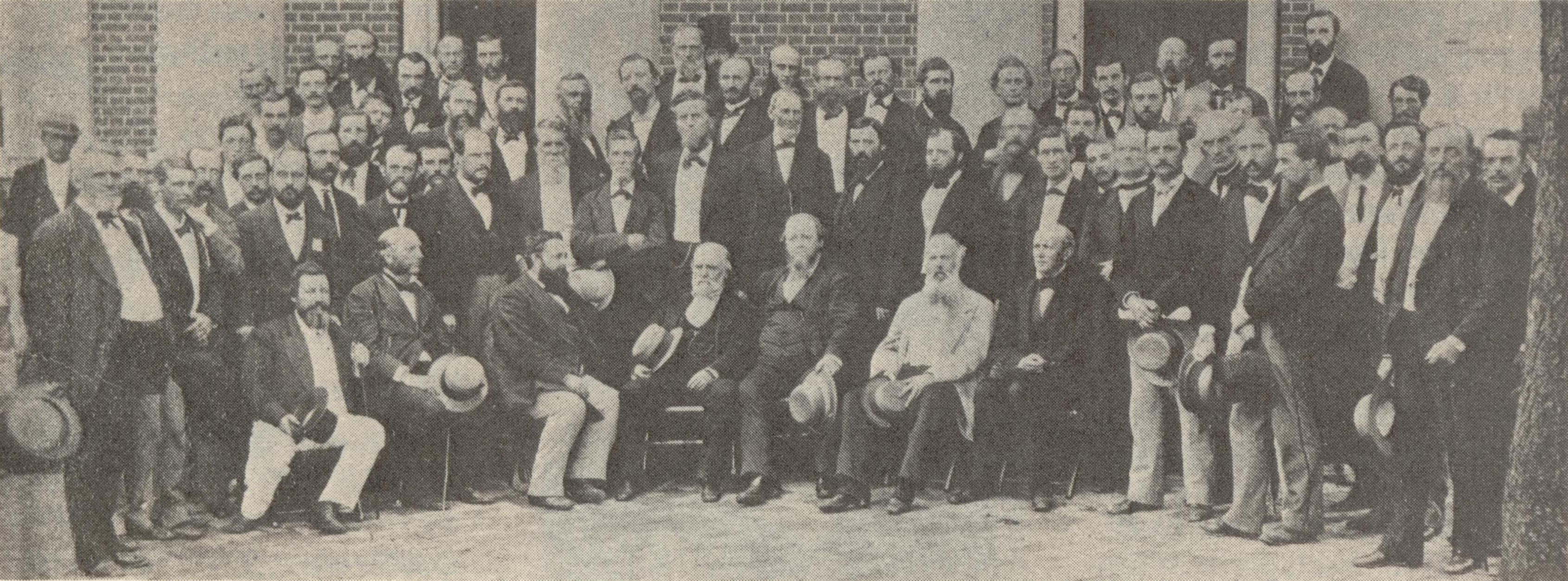 Photo of the 1874 meeting of chemists at the Joseph Priestley House.